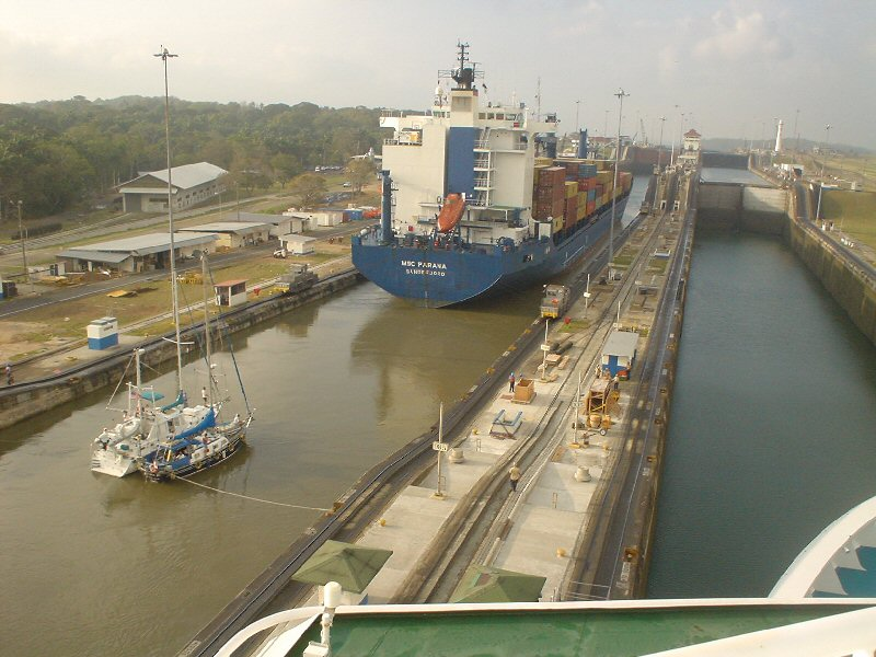 Stand face-to-face with the grandeur of the Panama Canal an engineering marvel aboard the Coral Princess. When our ship enters the canal it rose 85 feet in one of the legendary Gatun Locks. It%u2019s an amazing experience.